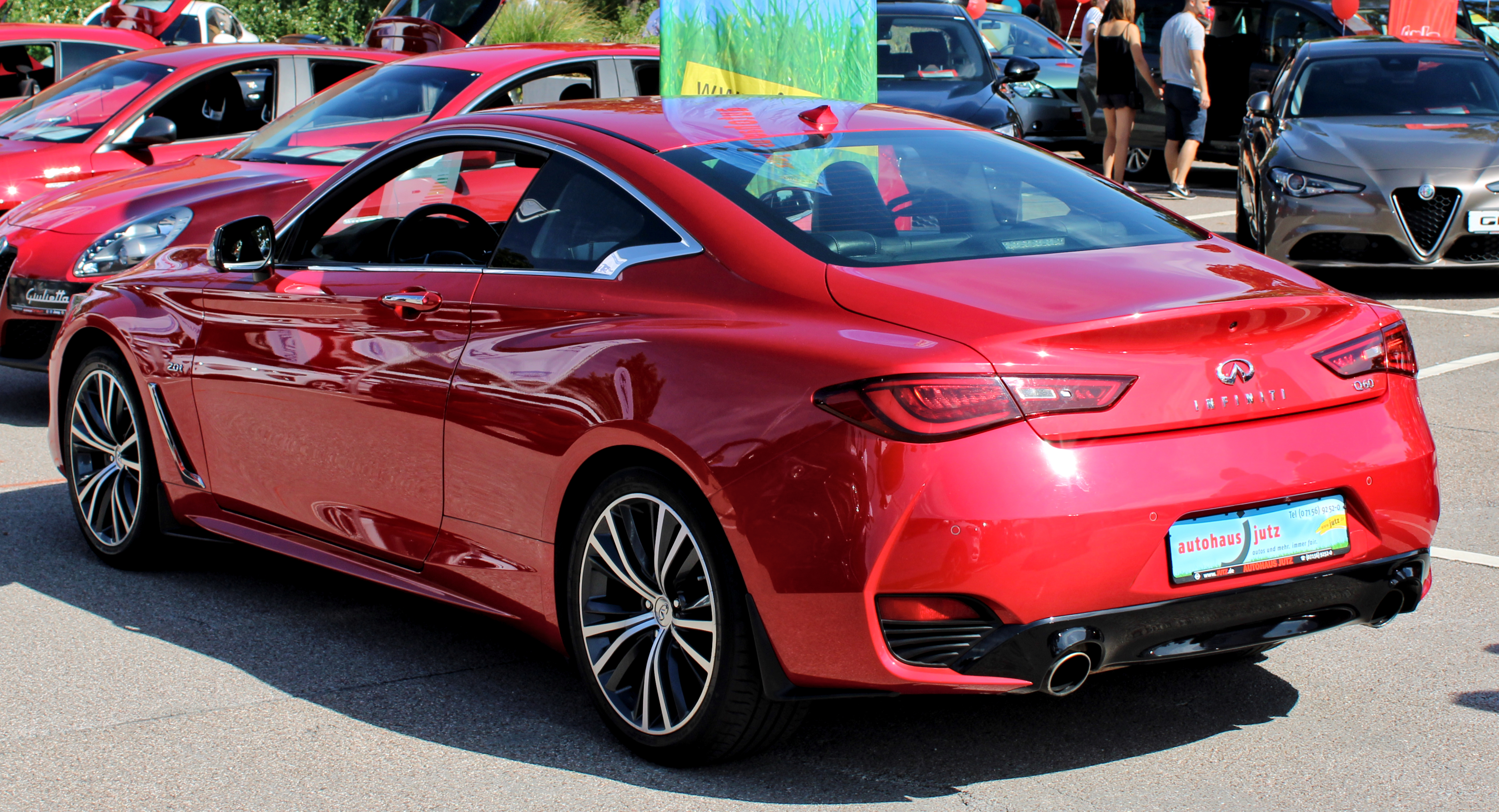 Infiniti Q60 (V37)